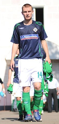 Andrew Mitchell as a player of Northern Ireland national U19 team